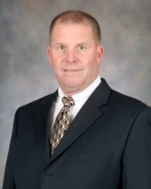 United States Military Academy (Army) photo of offensive coordinator Tim Walsh.